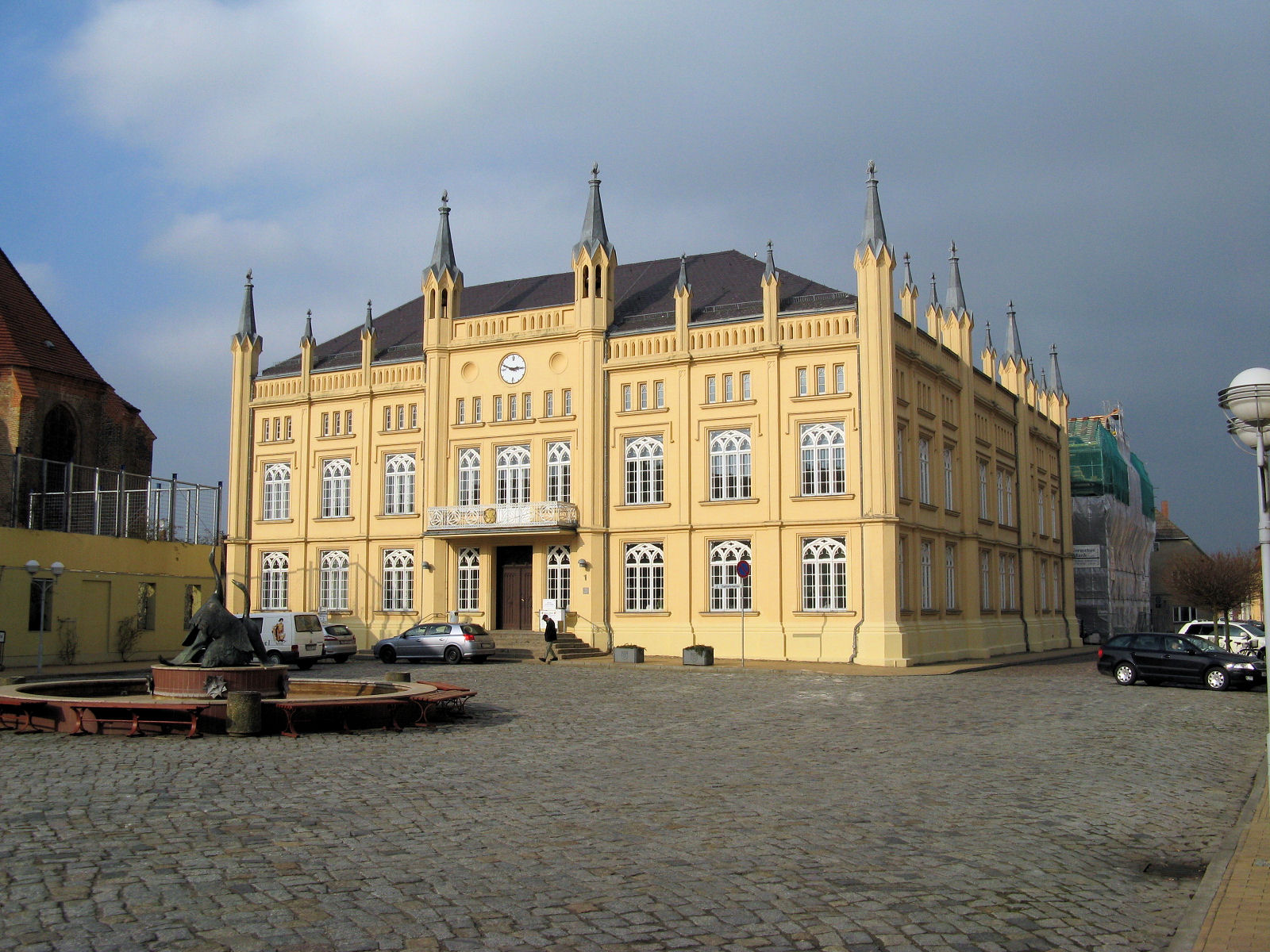 Town hall in Bützow, district Güstrow, Mecklenburg-Vorpommern, Germany